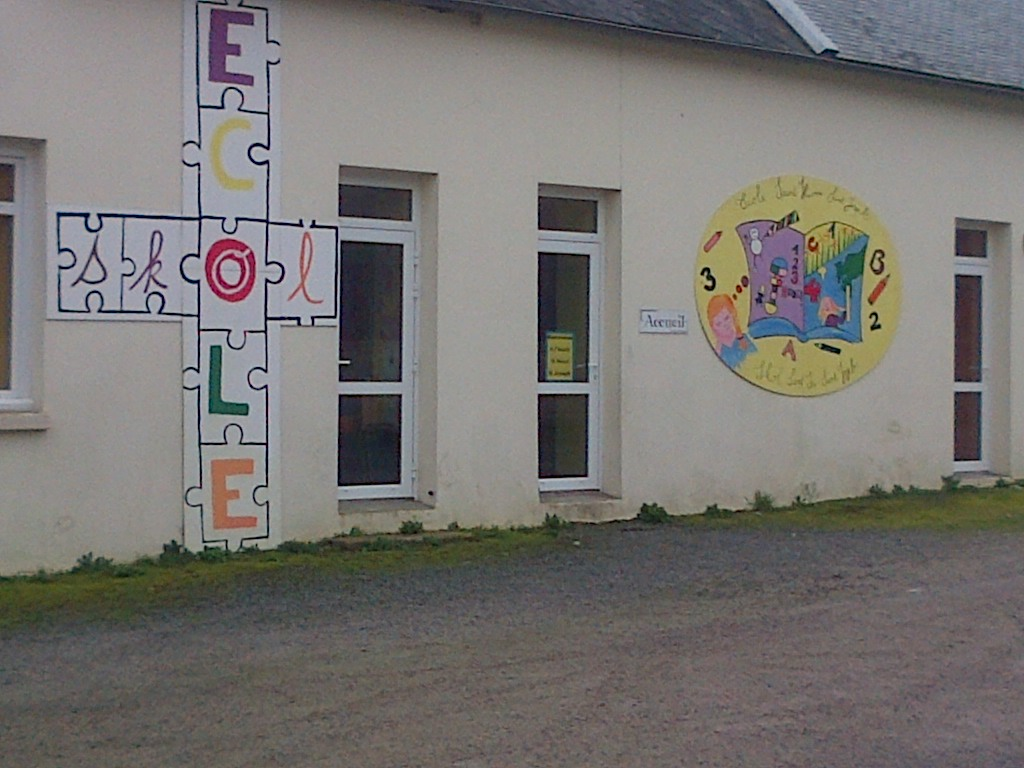 A billingual School in Brittany Bro Gwened Begnen